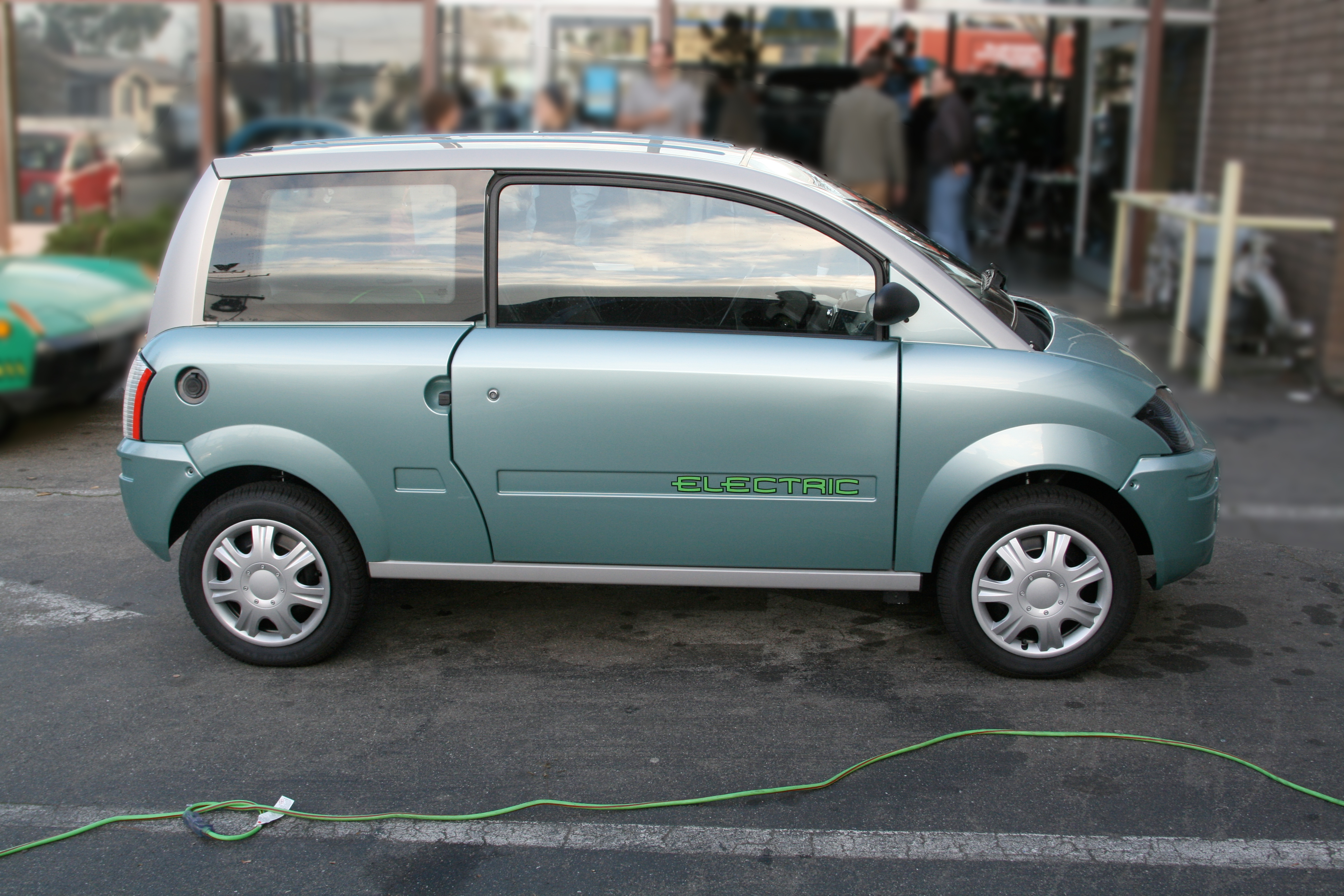 ZENN NEV at Green Motors ZENN introduction, Berkeley, California